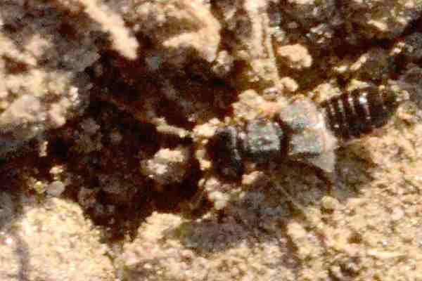 Picture taken in Commanster, Belgian High Ardennes Species: Anotylus tetracarinatus